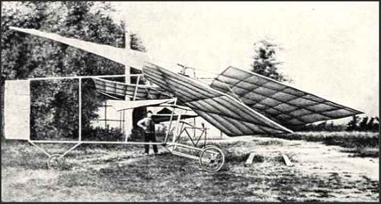 Traian Vuia helicopter 1918